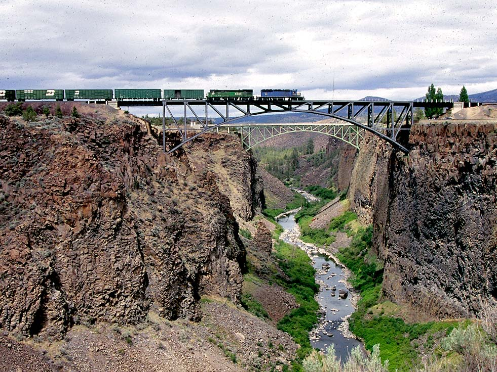 In 1995 a southbound BN freight crosses the Crooked River near Terrebonne,OR. In the background is the highway 97 crossing. Scanned from a 35mm slide.